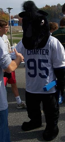 Charter School of Wilmington mascot Force Horse